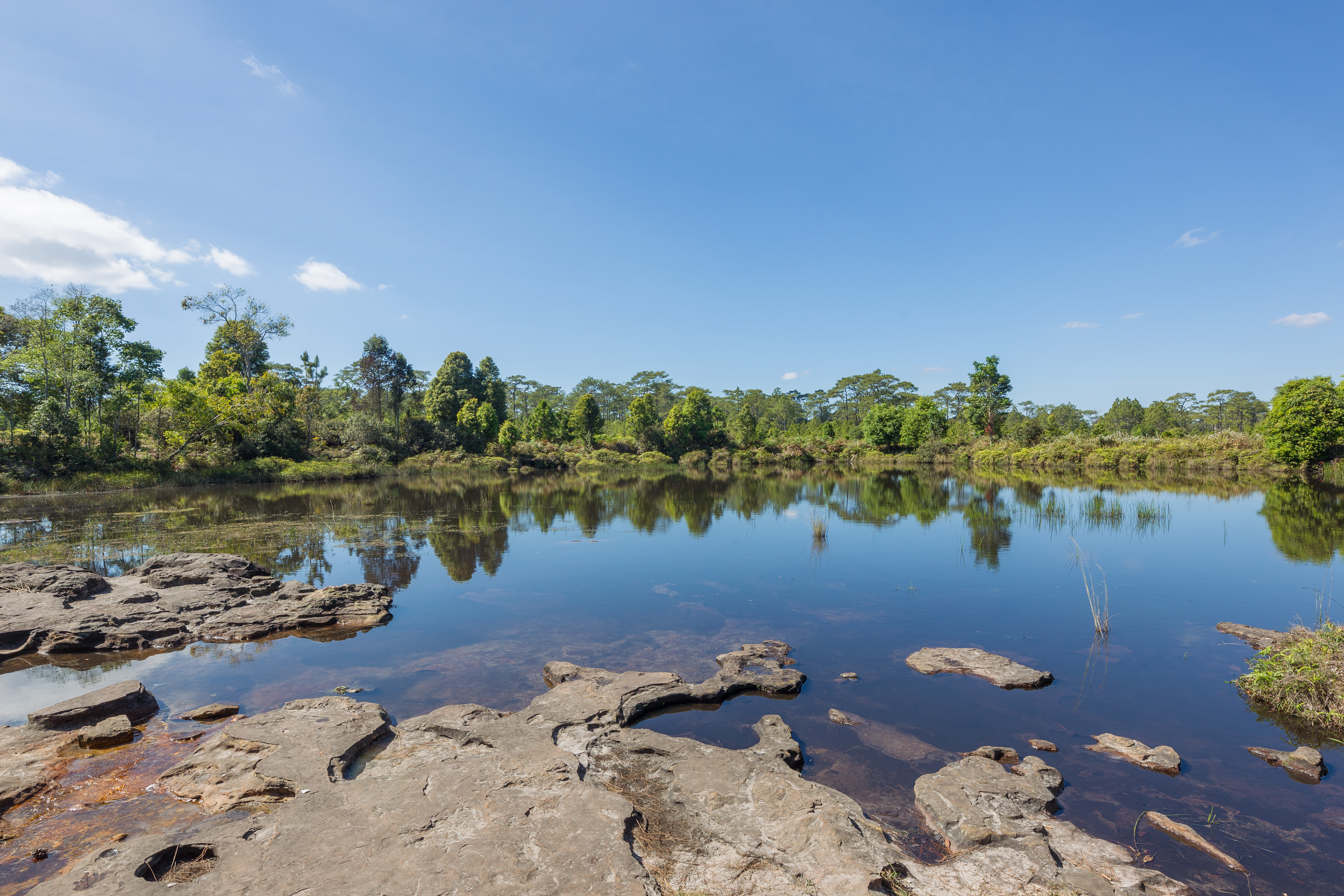 Anodard Pond at Phu Kradueng National Park in the Si Than sub-district of Amphoe Phu Kradueng, Loei Province.